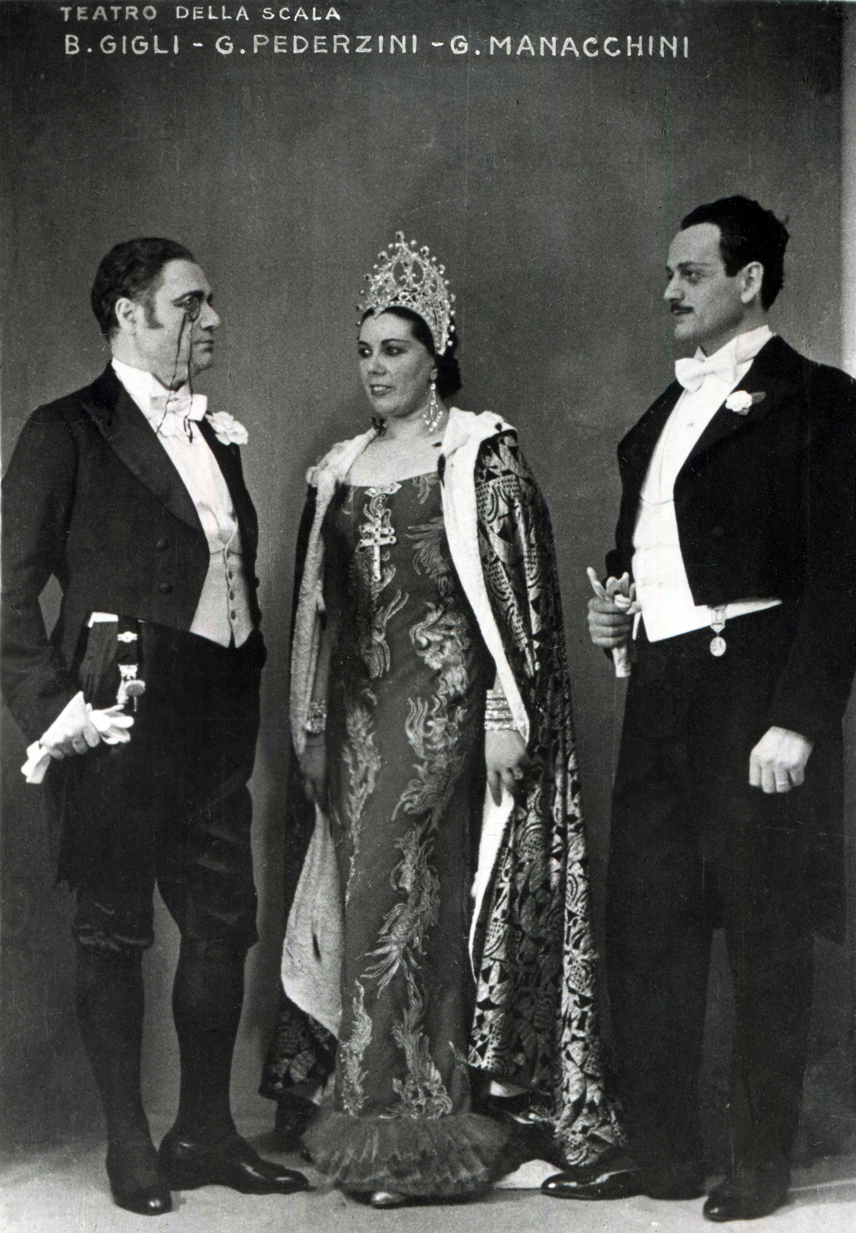 tenor Beniamino Gigli, soprano Gianna Pederzini and bariton Giuseppe Manacchini, at Teatro la Scala, Milan